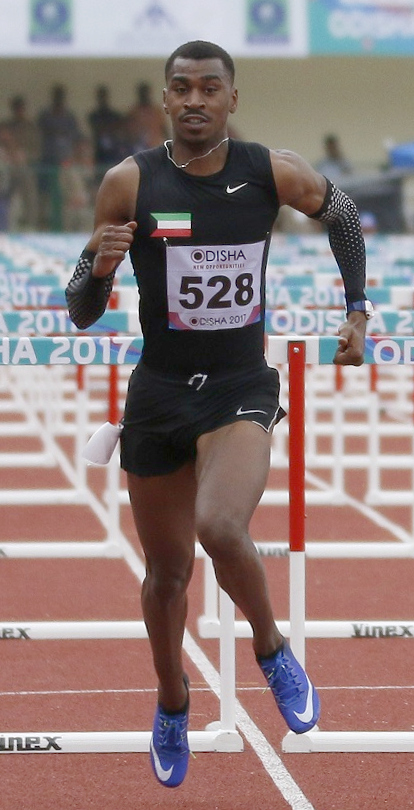 Athletes during 22nd Asian Athletics Championships in Bhubaneswar.